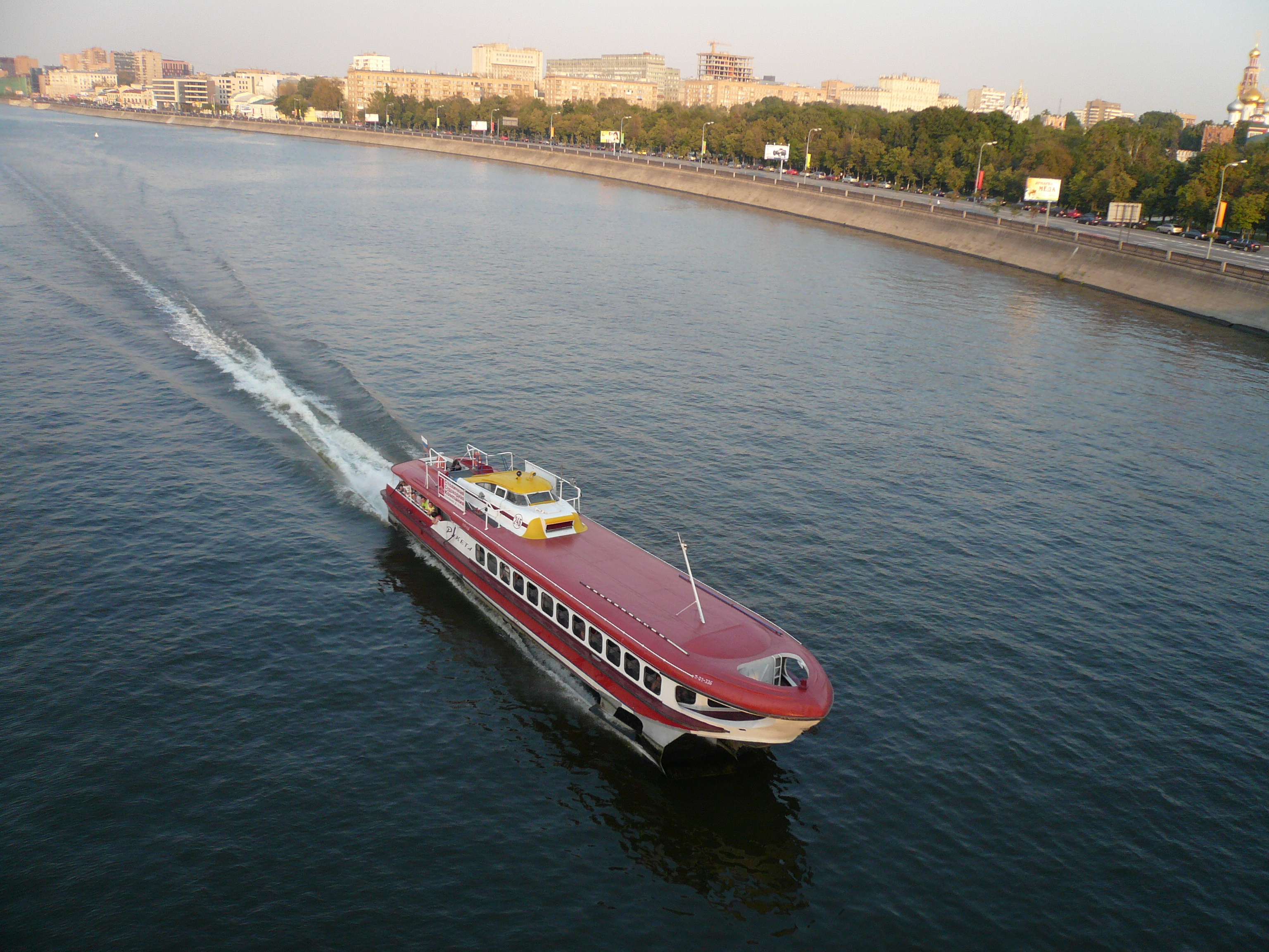 Raketa - was the first type of hydrofoil boats commercially produced in the Soviet Union.